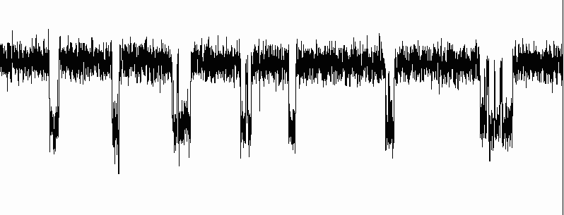 short stretch of single channel recording